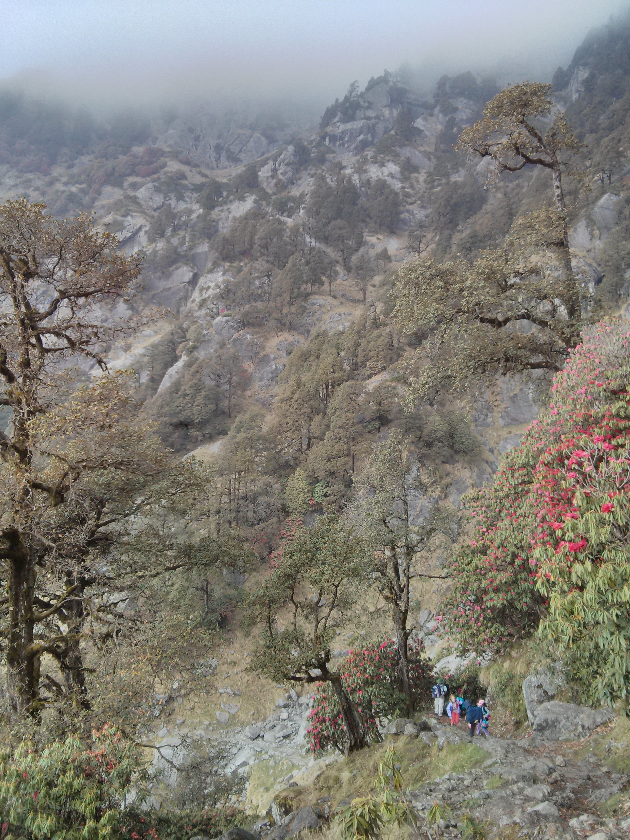 Triund trek route